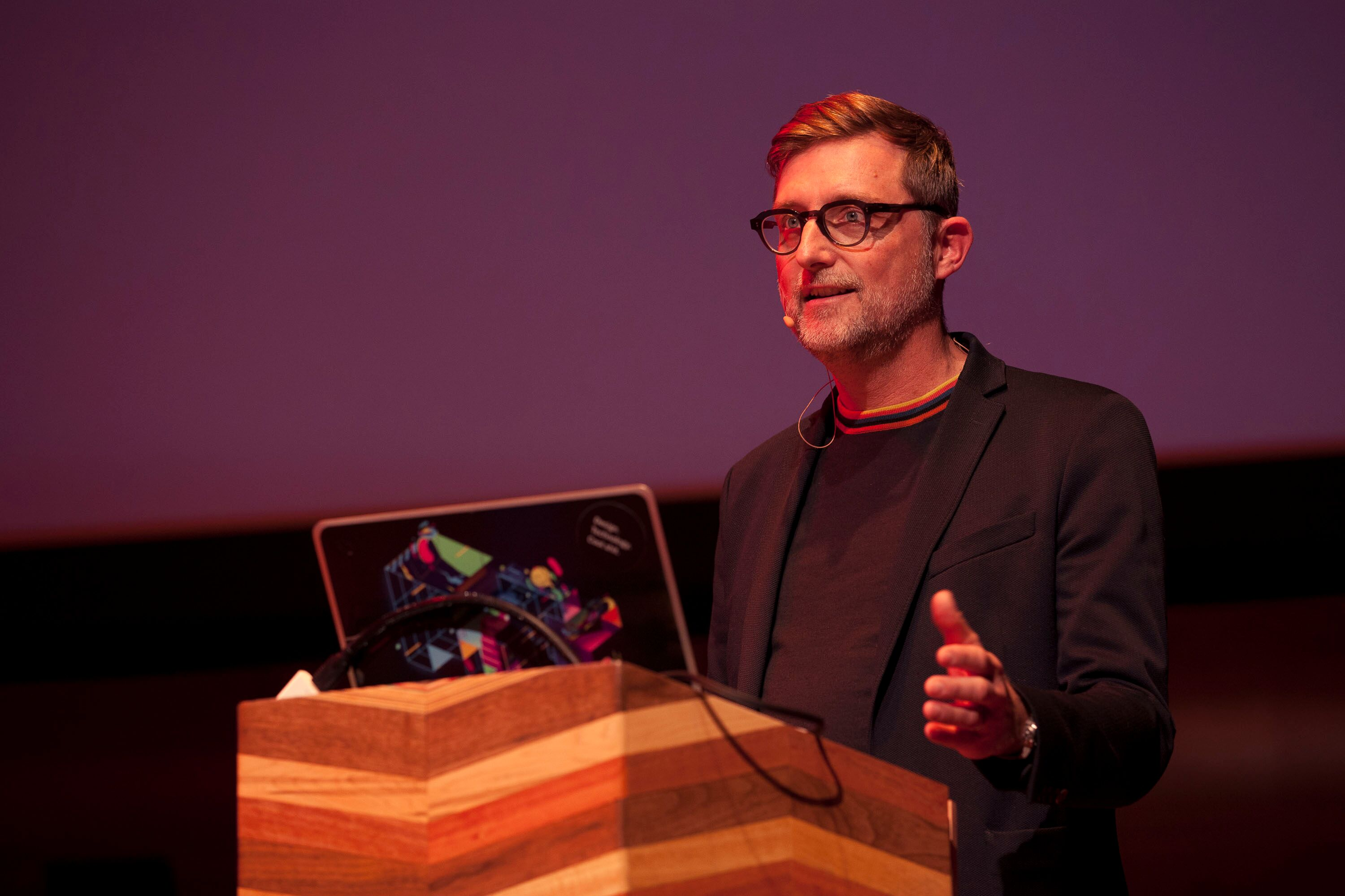 Production Designer Francois Audouy speaks at the 2019 Camp conference in Calgary, Alberta, Canada.